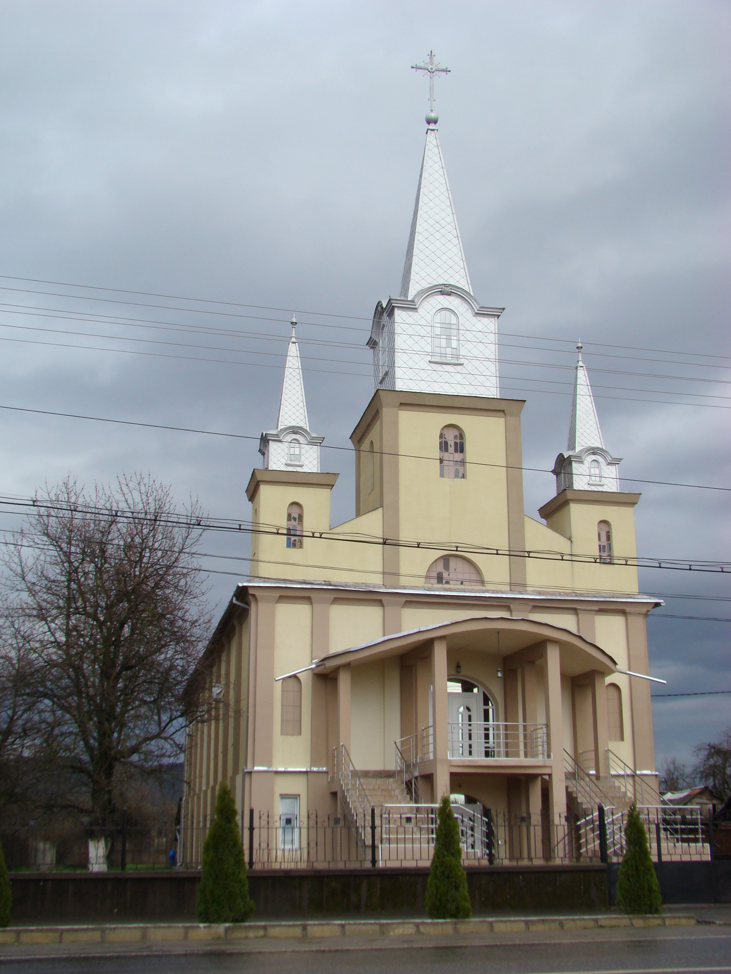 Buteni, Arad county, Romania